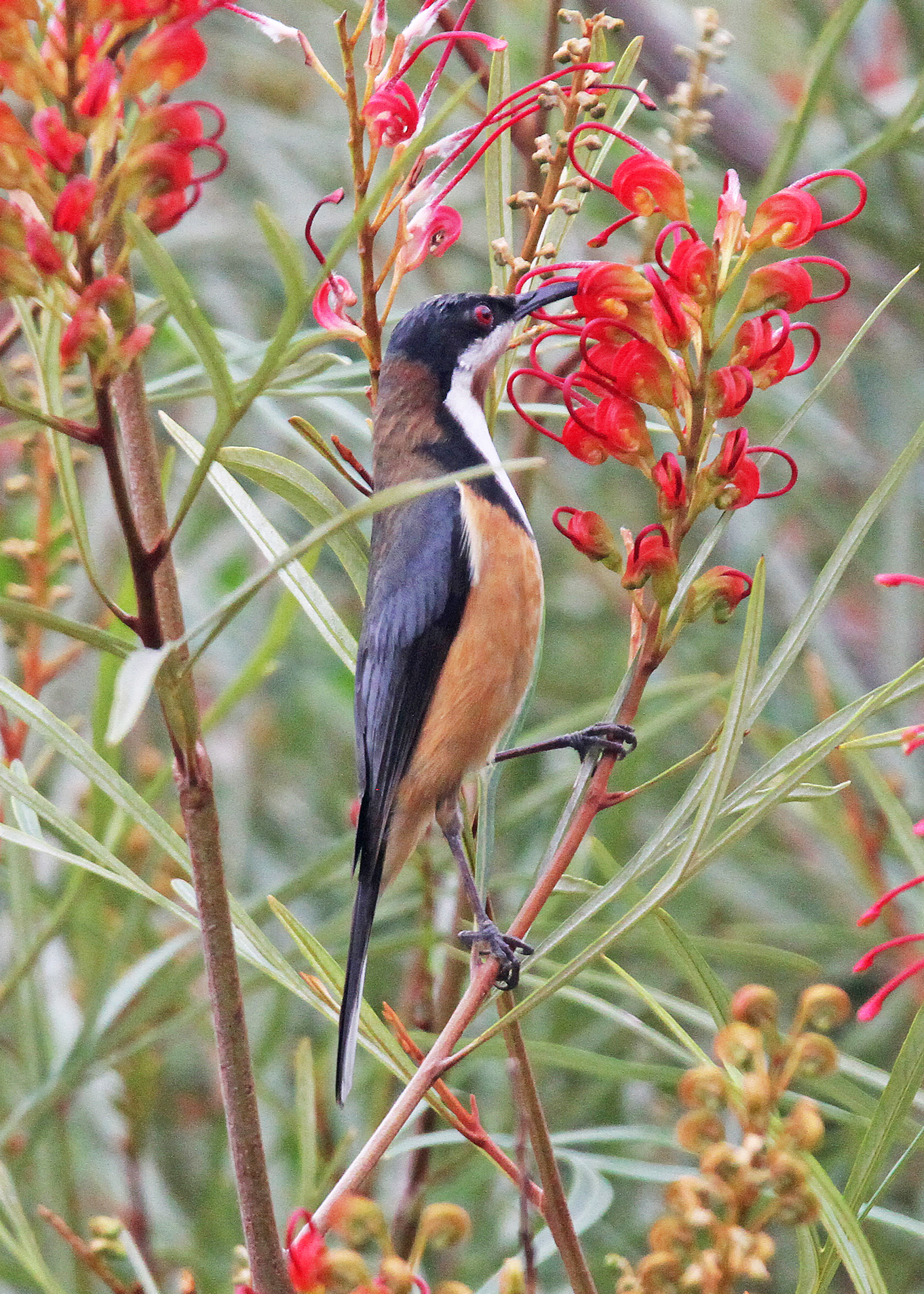 photo of Eastern Spinebill